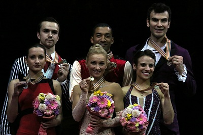 The pairs podium at the 2014 World Championships. From left: Ksenia Stolbova / Fedor Klimov (2nd), Aliona Savchenko / Robin Szolkowy (1st), Meagan Duhamel / Eric Radford (3rd).